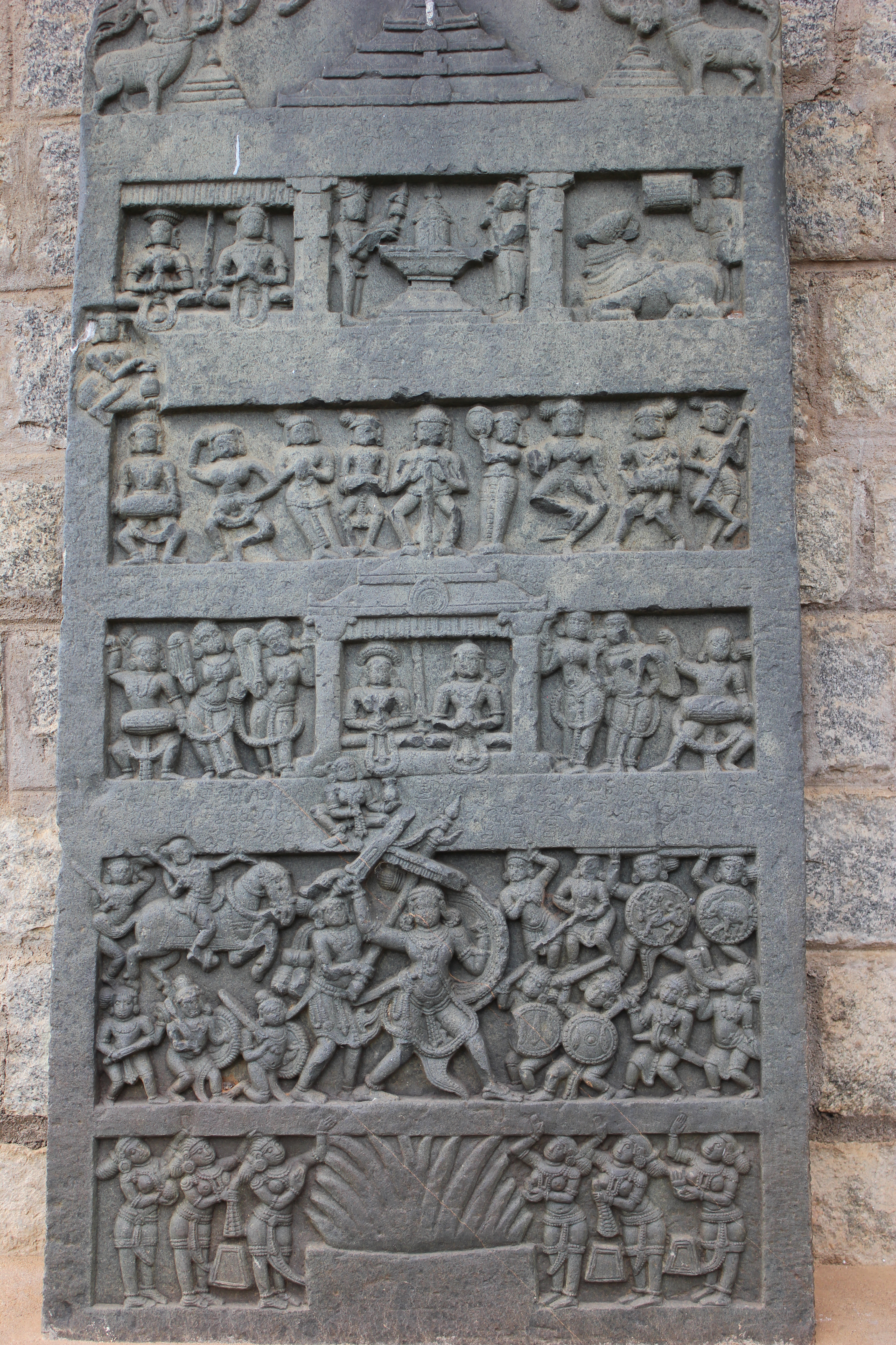 This photograph of a Herostone (virgal) with an old Kannada inscription (1286 A.D.) from the rule of Yadava King Ramachandra was taken by me at the Kedareshvara temple (also spelt Kedaresvara or Kedareshwara) in Balligavi (also called variously as Belgami, Belligave, Balligamve and Ballipura in ancient inscriptions) in the Shimoga district of Karnataka state, India. Source: Mysore inscriptions, pg.168, Benjamin Lewis Rice, Director of Public Instruction, Mysore and Coorg, Printed at Mysore Government Press, Bangalore, 1879